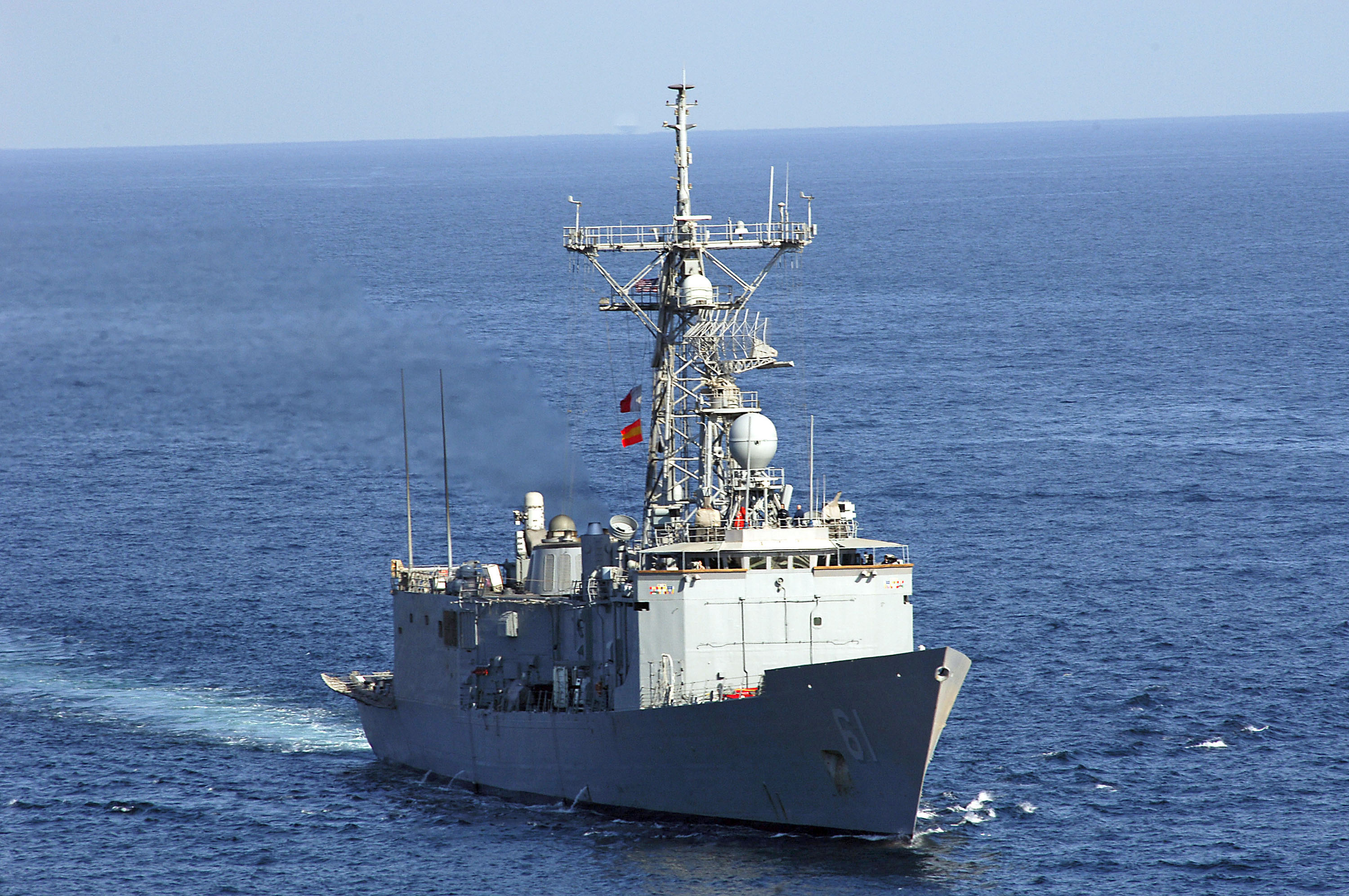 The guided-missile frigate USS Ingraham (FFG 61) patrols the Persian Gulf. Ingraham is part of the Tarawa Expeditionary Strike Group which is deployed to the U.S. 5th Fleet area of responsibility for a scheduled deployment.